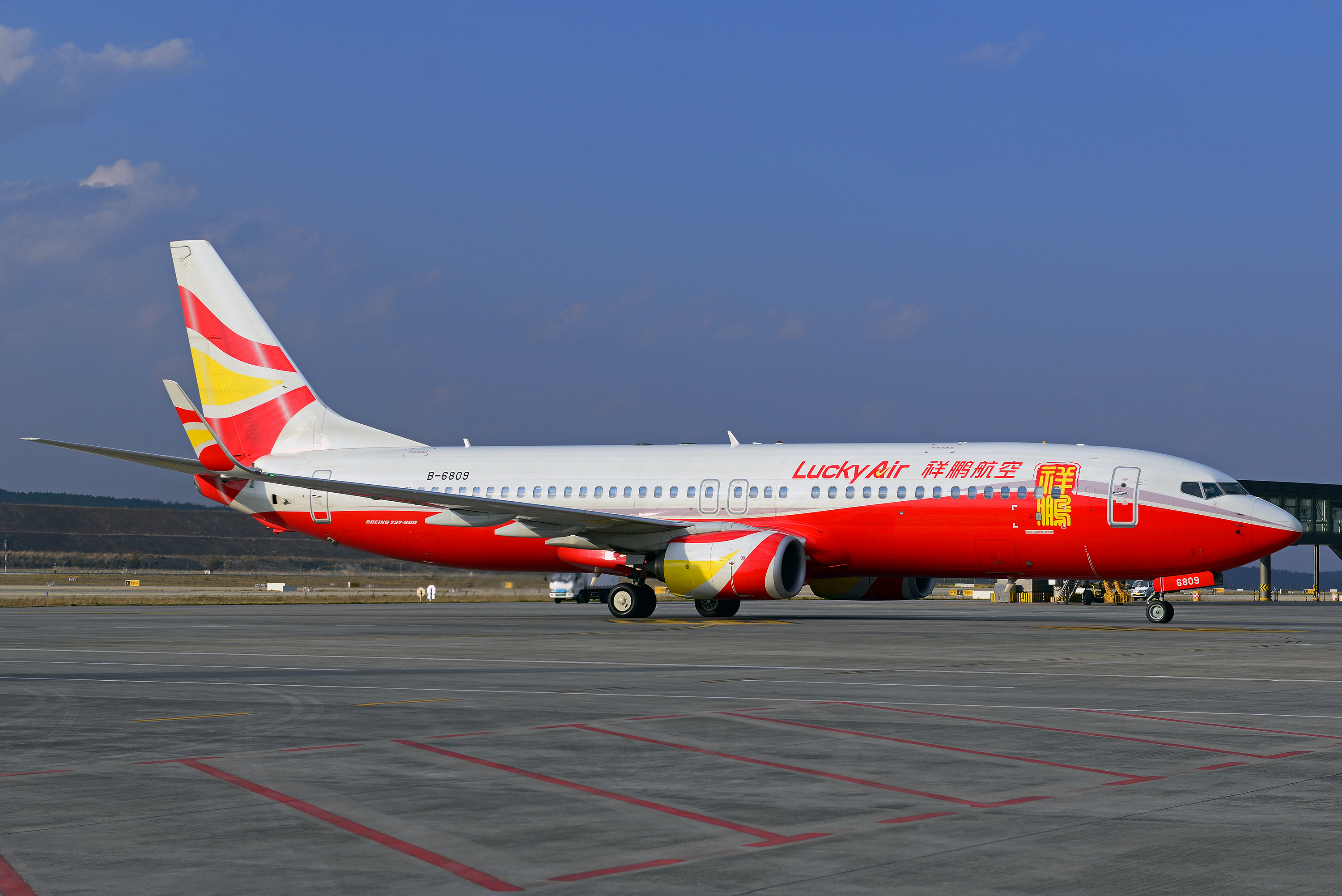 Lucky Air Boeing 737-800 with its new livery taxing in Kunming Changshui International Airport